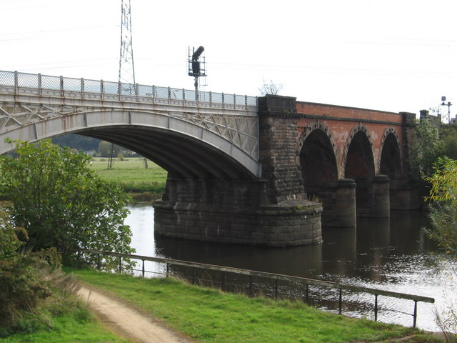 Netherfield - west side of Trent Viaduct